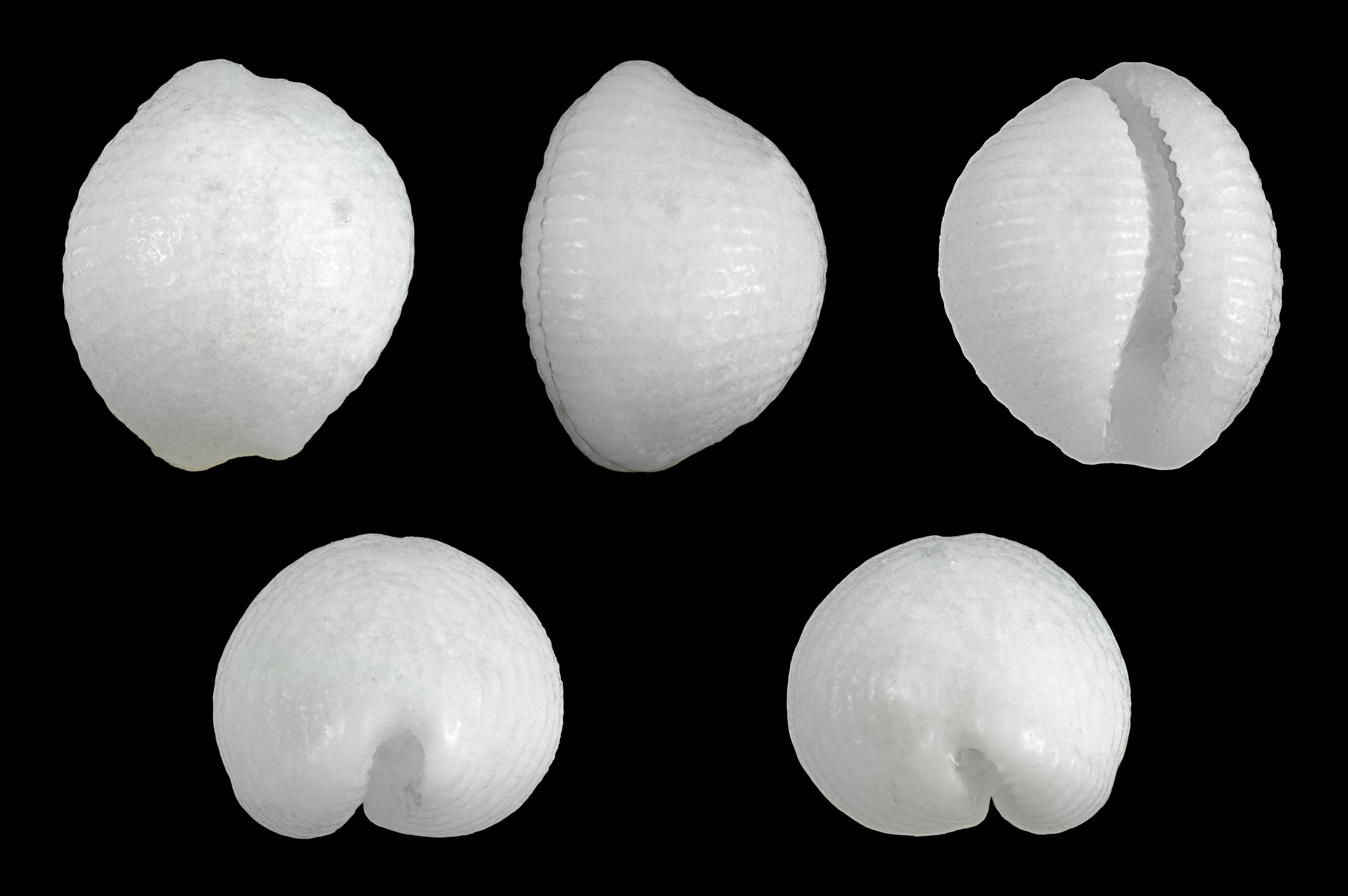 Length 0.55 cm; Originating from Khao Lak, Thailand; Shell of own collection, therefore not geocoded. Dorsal, lateral (right side), ventral, back, and front view.